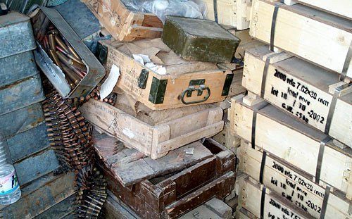 Boxes of ammunition clog a warehouse in Baghdad. Saddam Hussein stockpiled the ammo all over Baghdad. Coalition forces are picking up the ammunition and getting it out of the city. Photo by Bob Fisher.